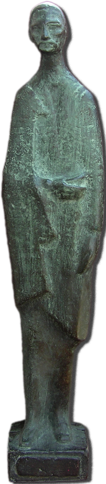 Statuette of Jovan Sterija Popović, work by Milica Ribnikar Srpski (latinica): Figurina Jovana Sterije Popovića, rad Milice Ribnikar Српски (ћирилица): Фигурина Јована Стерије Поповића, рад Милице Рибникар